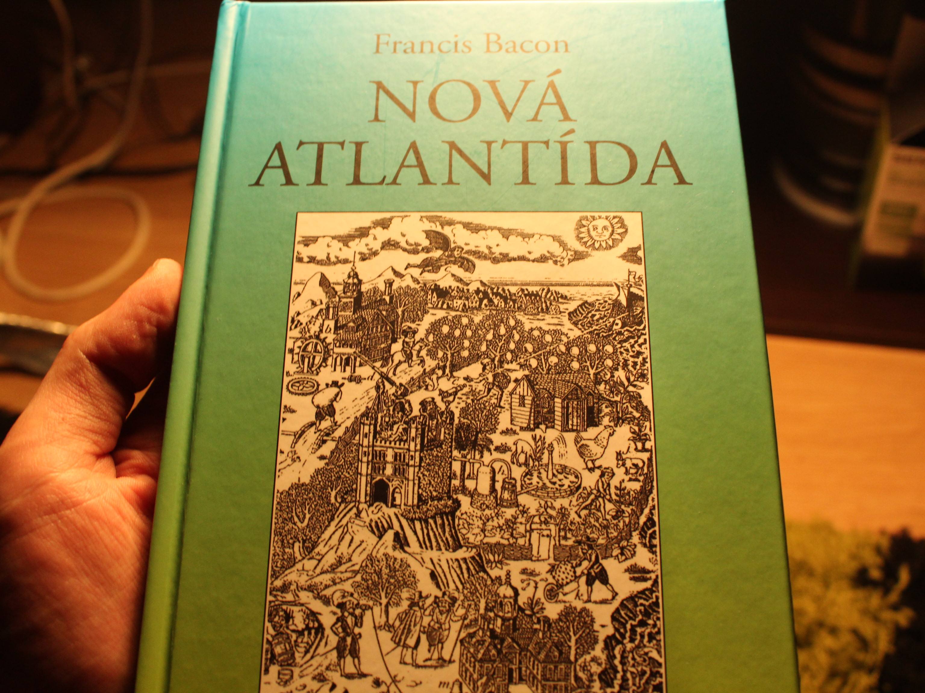 Francis Bacon, New Atlantis, slovak translation